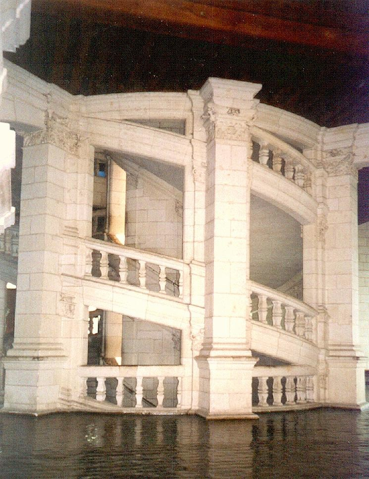 Château de Chambord, double-helix staircase